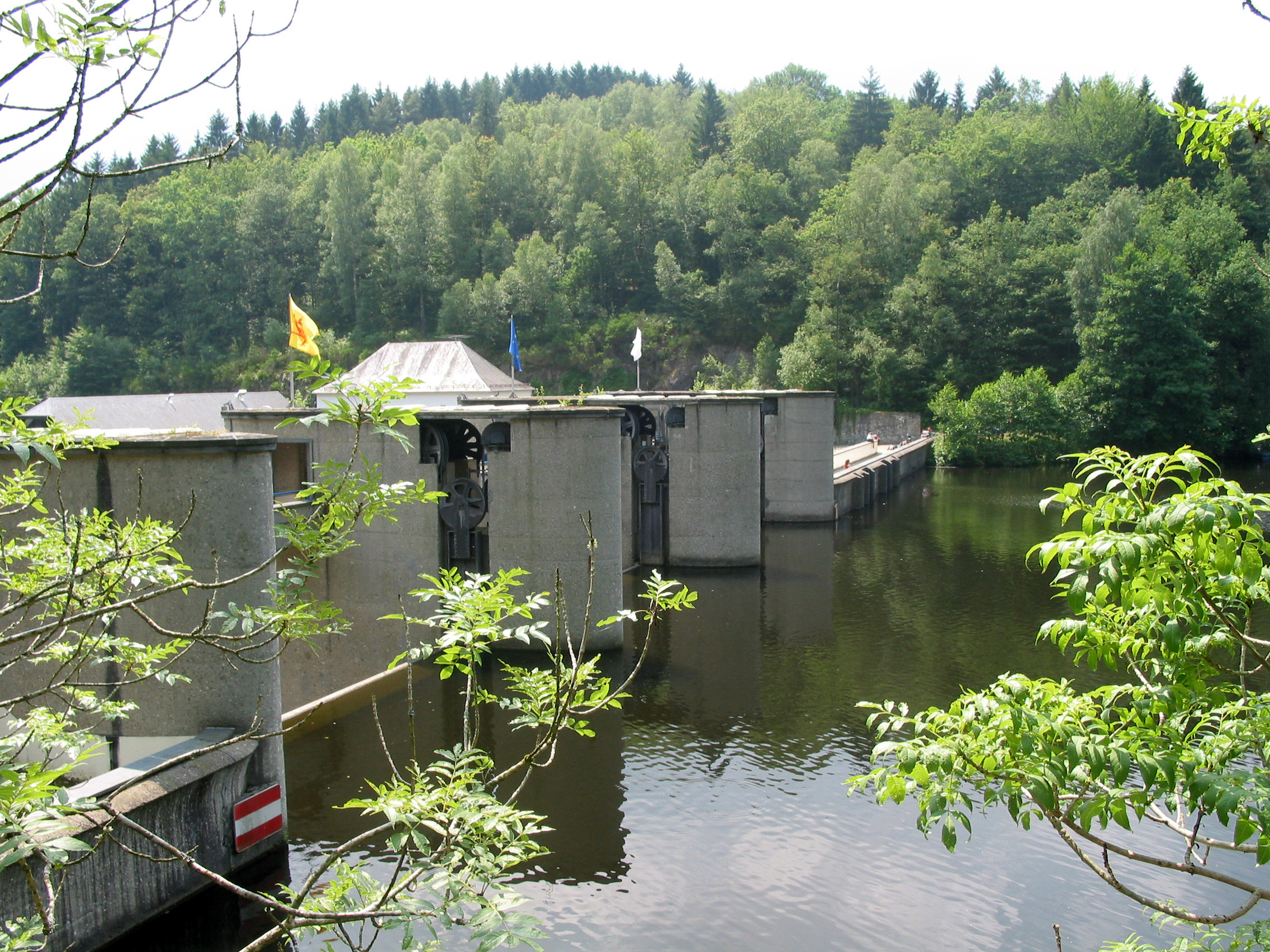 Nisramont (Belgium), the Nisramont hydro-electric dam and water purification station of Nisramont (La Roche-en-Ardenne).